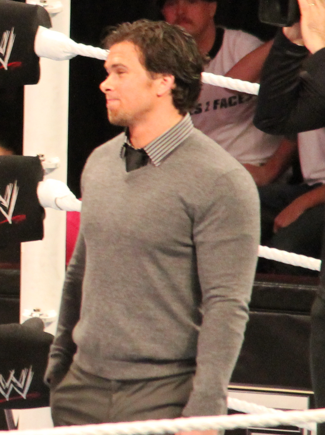 Brad Maddox on WWE Raw on February 18, 2013. Cropped from original image.